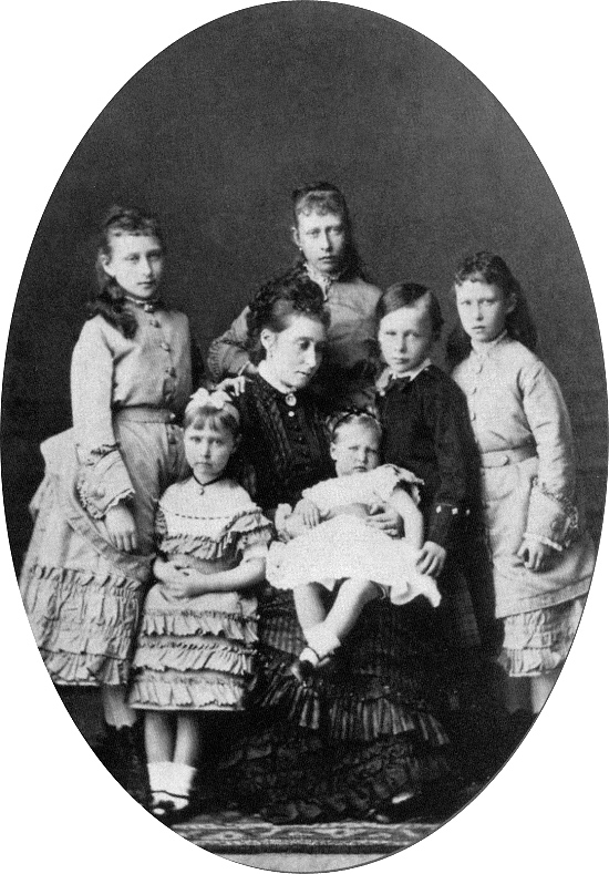 The Hessian children with their mother - Ella, at the top Victoria, at the right Irene, next to her is Ernie and then Princess Alice with May in her lap, and Alix.